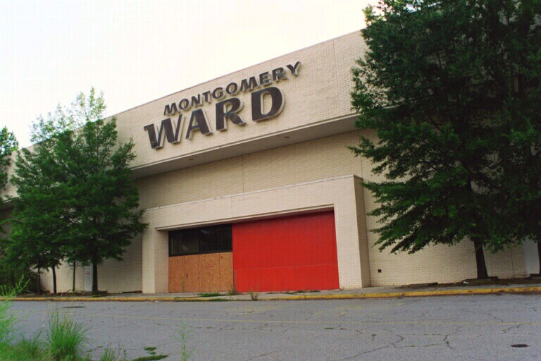 An abandonded Montgomery Ward entrance at the former Regency Mall in Augusta, Georgia. The Ward department store opened as one of the mall's original anchors in 1978 and closed in 2001 when the company folded.